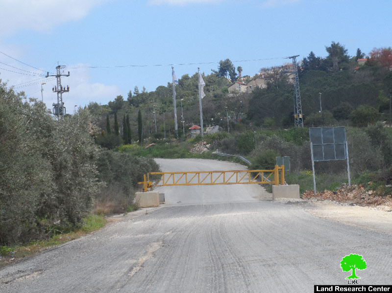 The entrance to the northern city of Salfit is closed